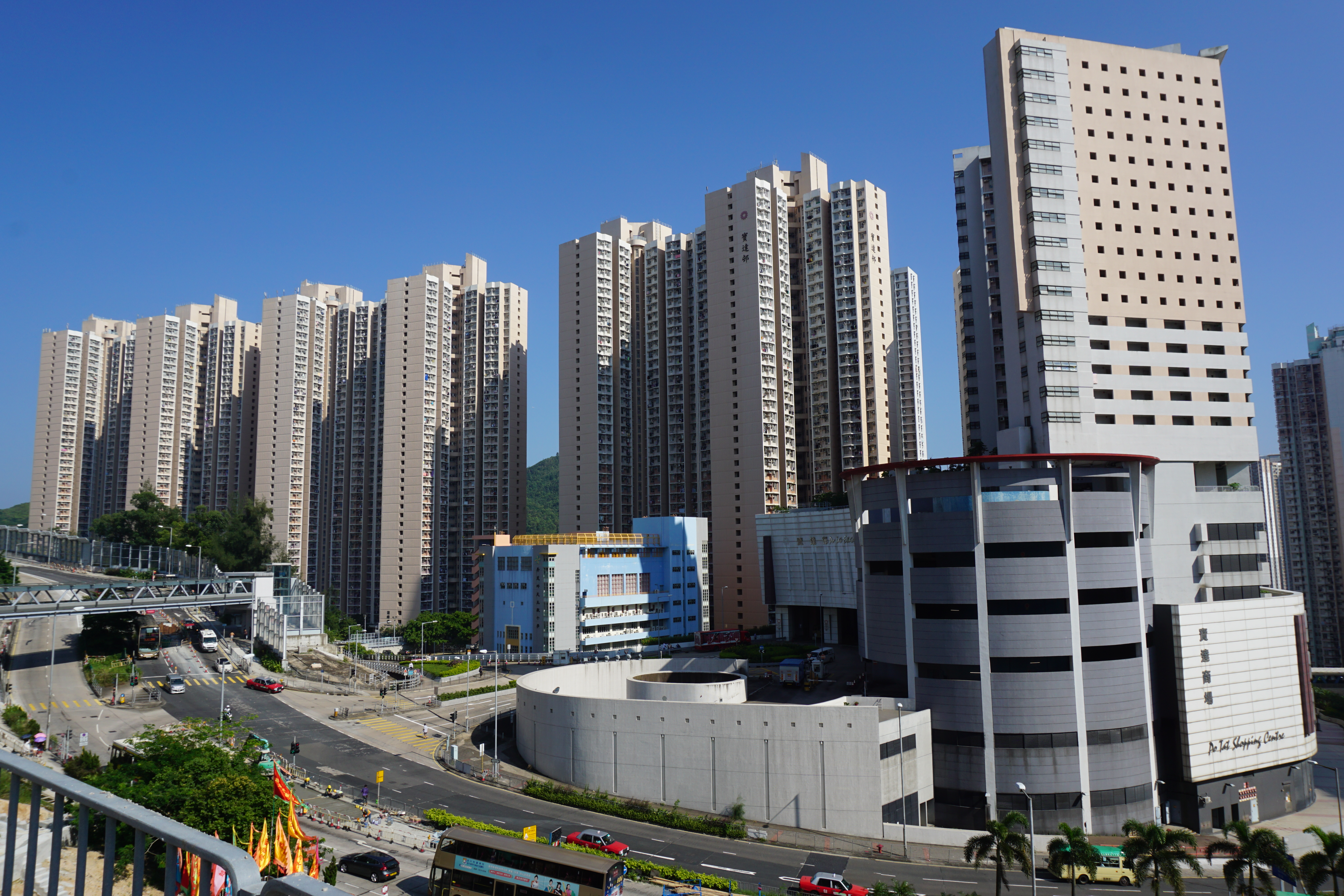 Po Tat Estate in Sau Mau Ping, Hong Kong.